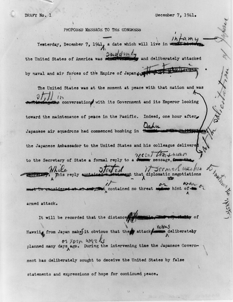 An annotated version of Roosevelt's Infamy speech, showing the original wording "a date which will live in world history", etc.